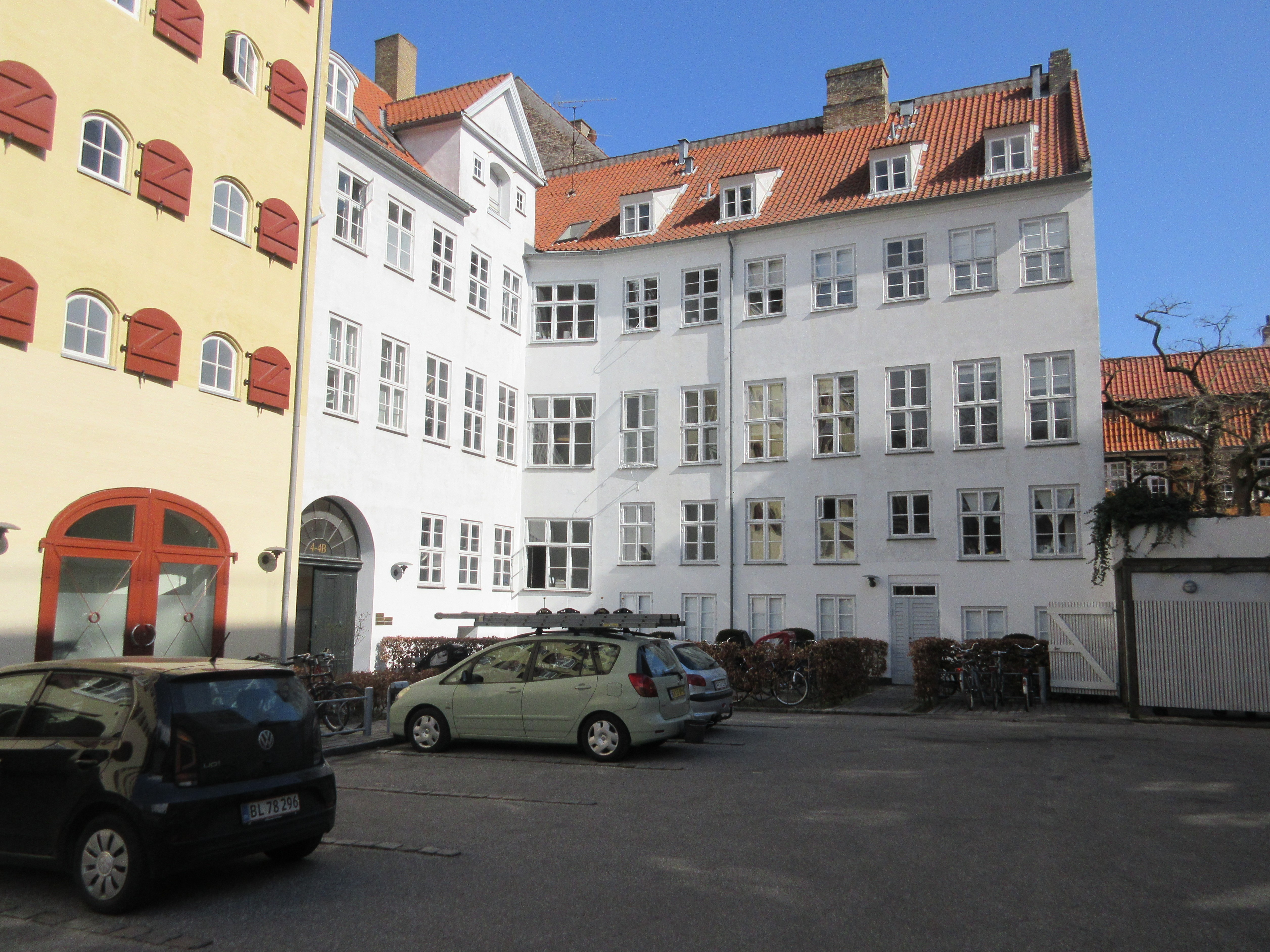 The rear side of Strandgade 4B in Copenhagen, Denmark